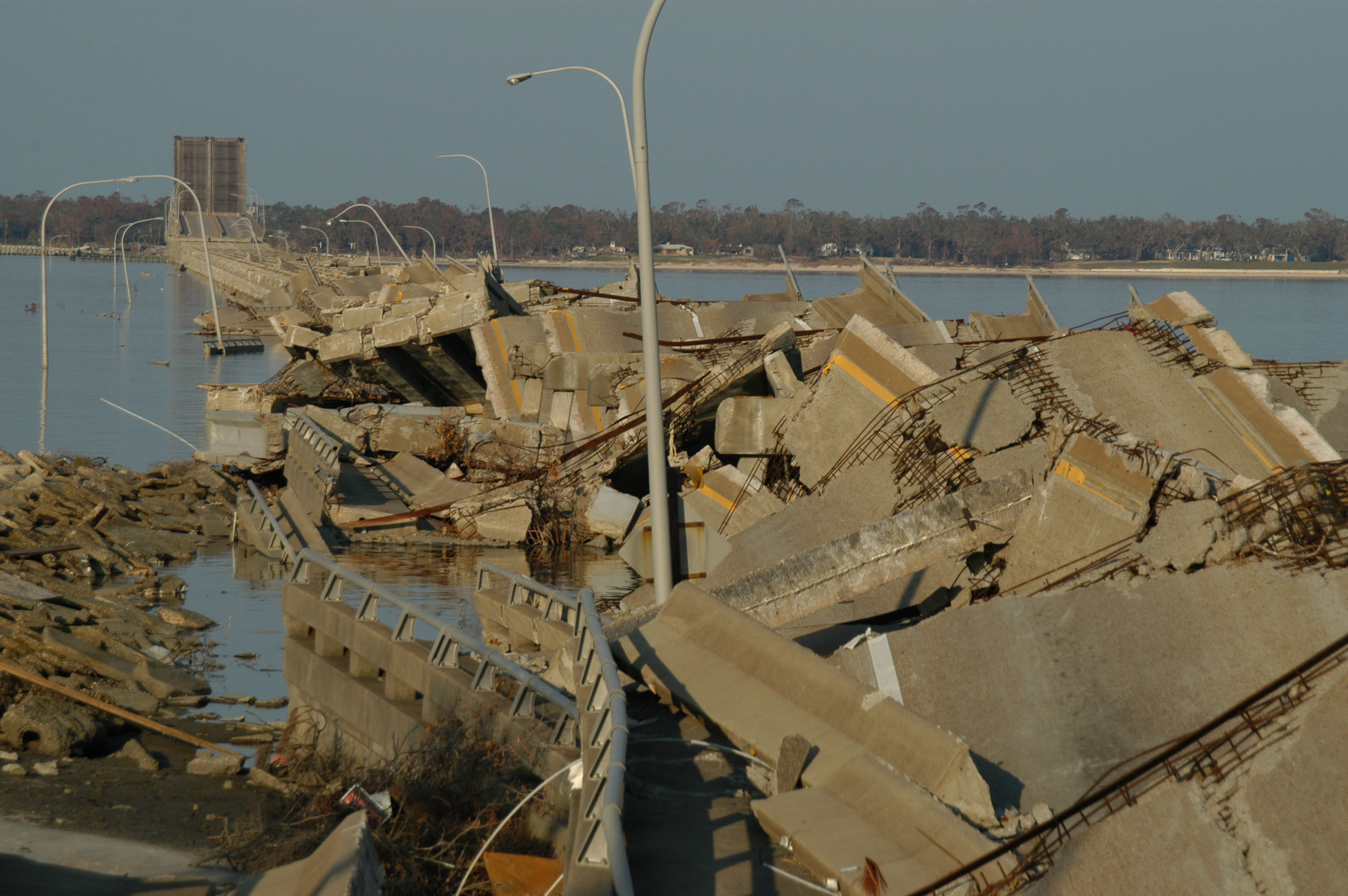 Biloxi, Miss., November 3, 2005 -- The Hwy 90 bridge from Biloxi to Ocean Springs lies in a twisted mass as result of catastrophic wind and storm surge from Hurricane Katrina. Road closure along the coastal area has complicated recovery efforts. George Armstrong/FEMA